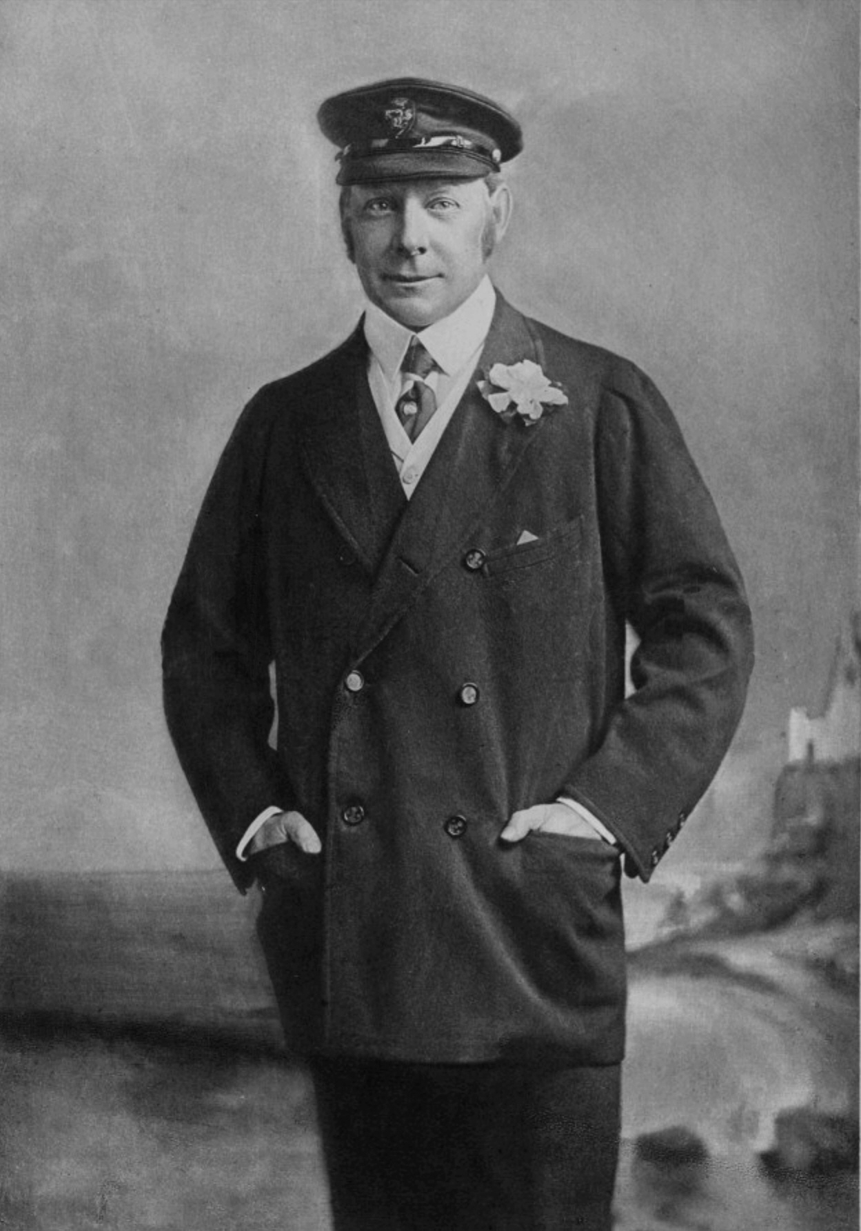 Hugh Cecil Lowther (1857-1944), 5th Earl of Lonsdale